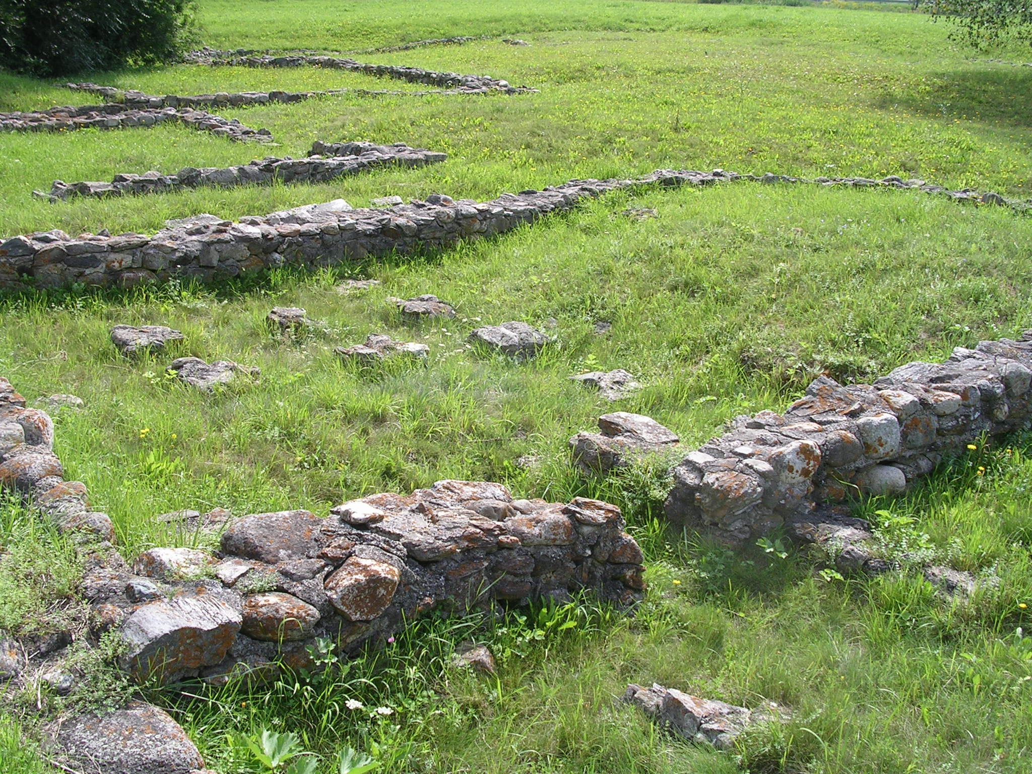 Walls of the roman "mansio" of Sebatum (San Lorenzo di Sebato/Sankt Lorenzen, South Tirol, Italy)